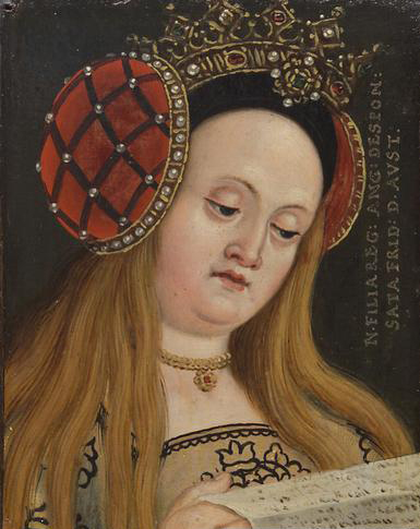 Joan of England (1335–1348)